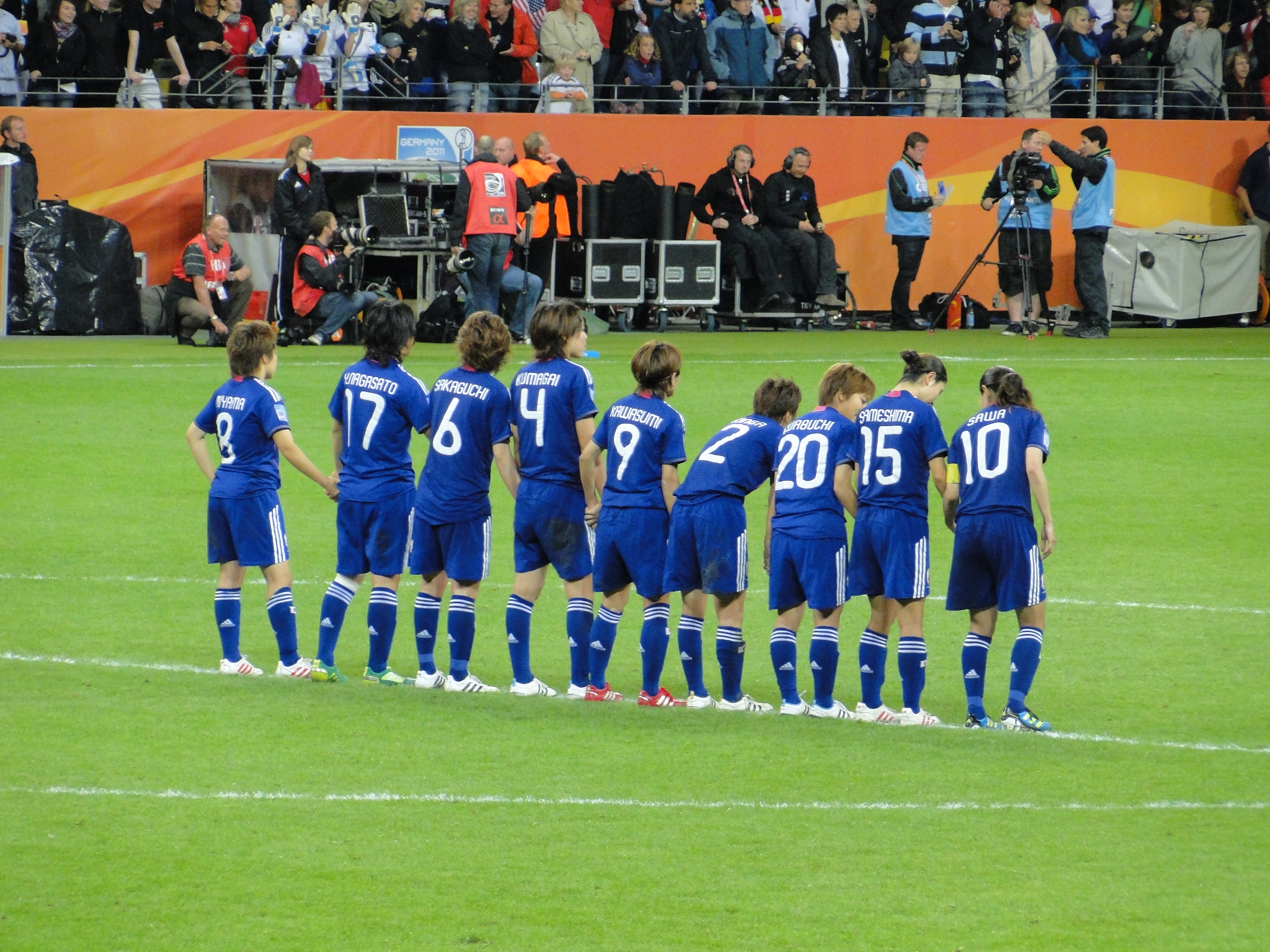 USA players together watch the penalty shoot-out.